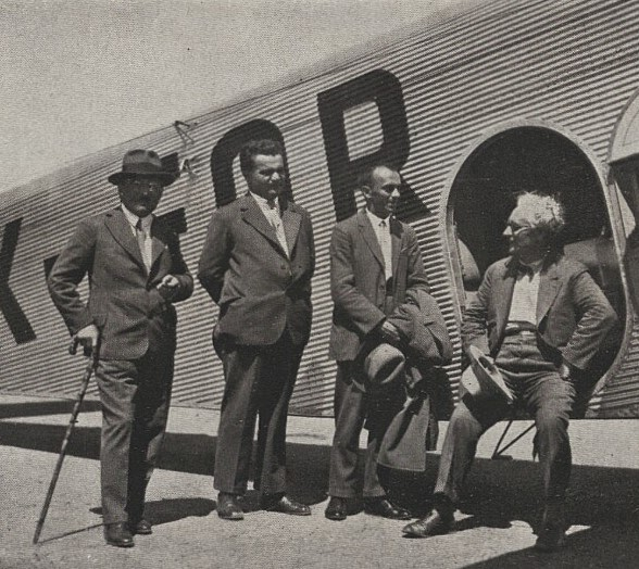 František Stočes, Director of Czechoslovak airlines, executed by Nazis, 1930